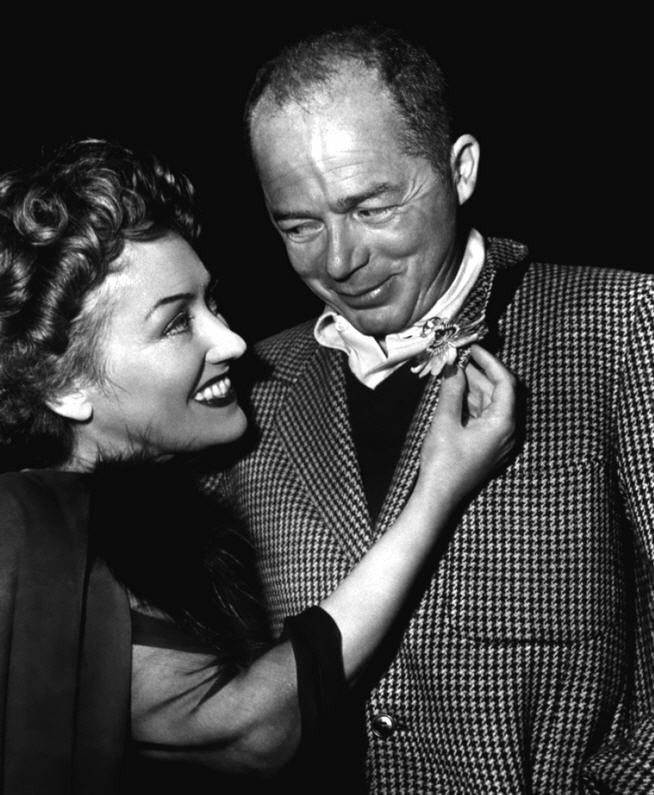 Studio publicity photo of Billy Wilder and Gloria Swanson.